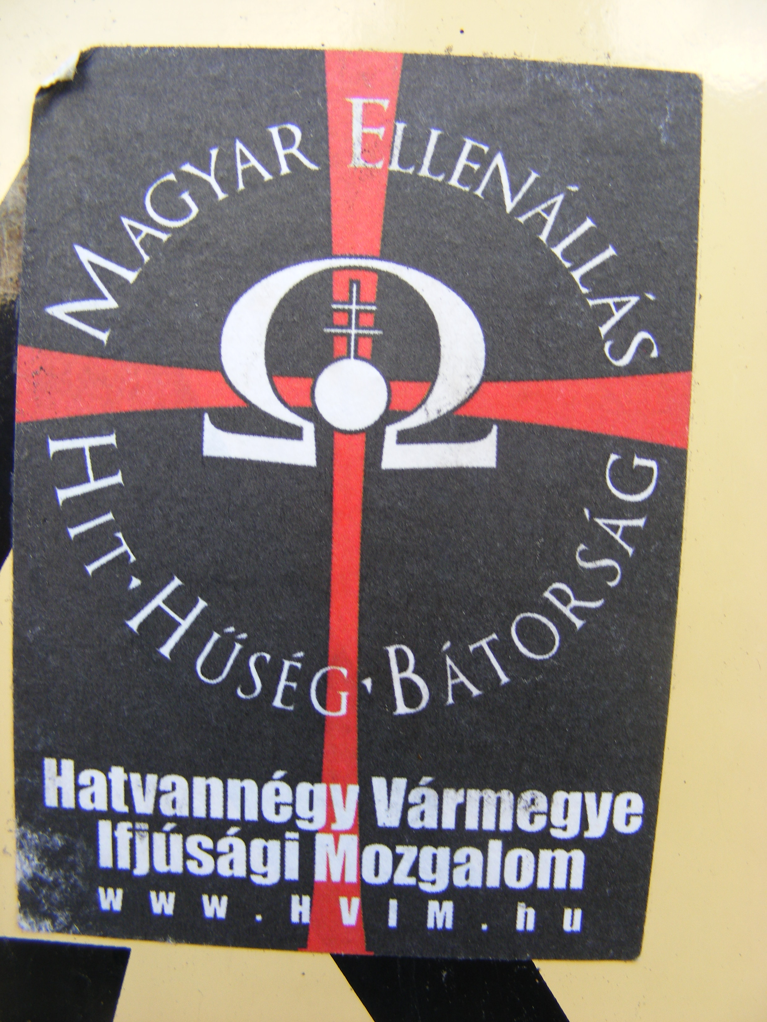 The embleme of the Sixty-Four Countys Youth Movement